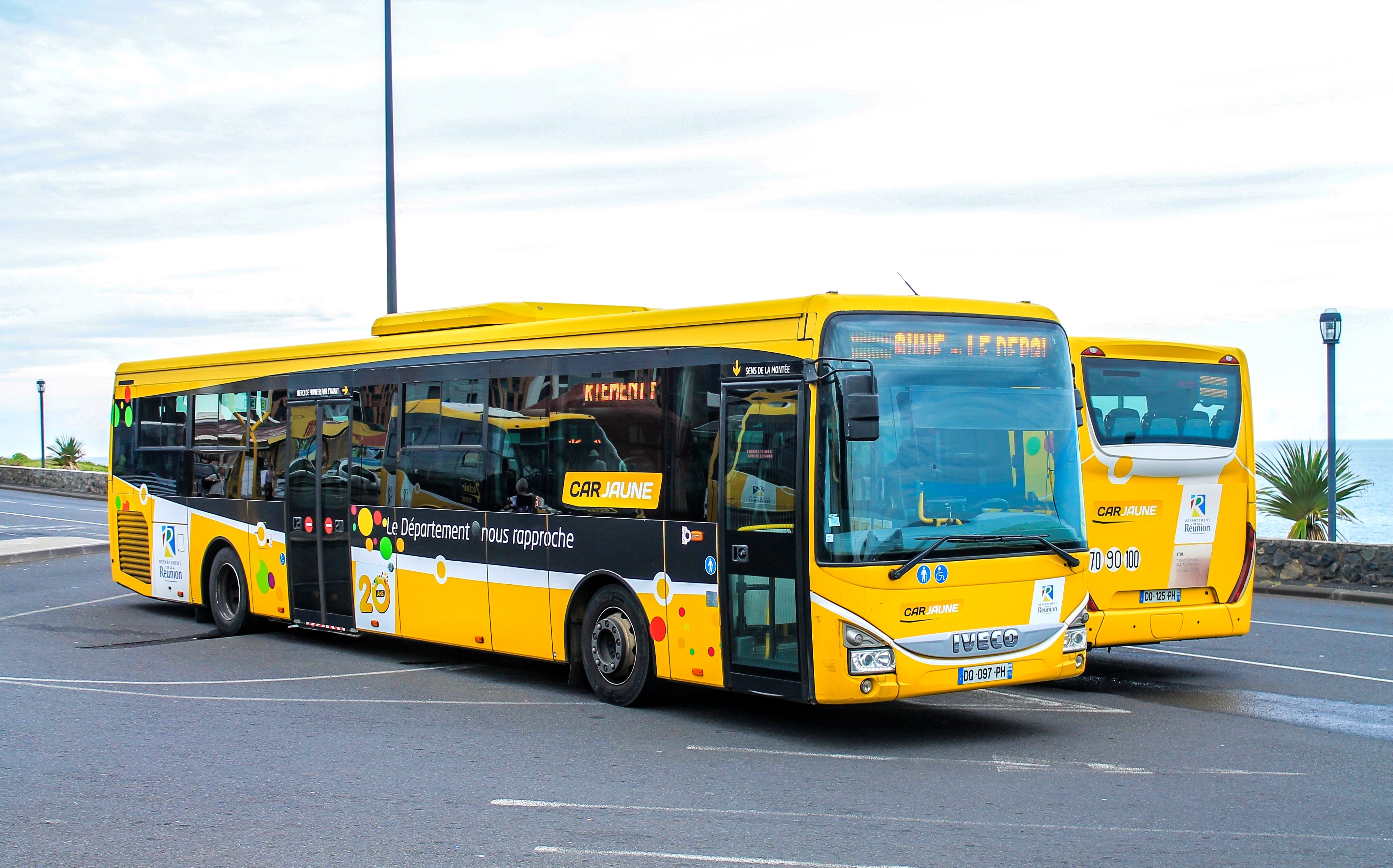 Iveco Crossway LE Car Jaune